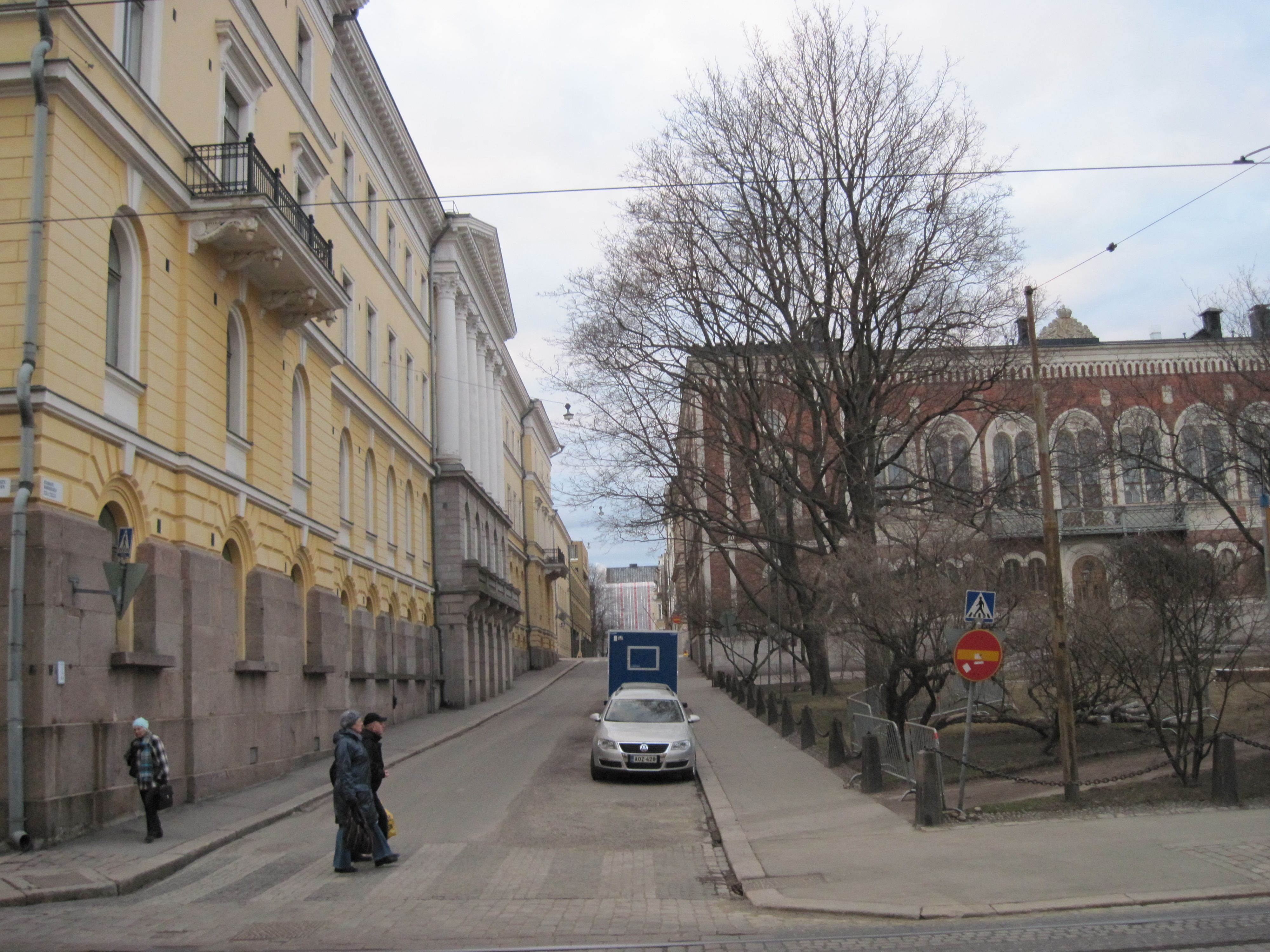 Ritarikatu street in Helsinki, Finland